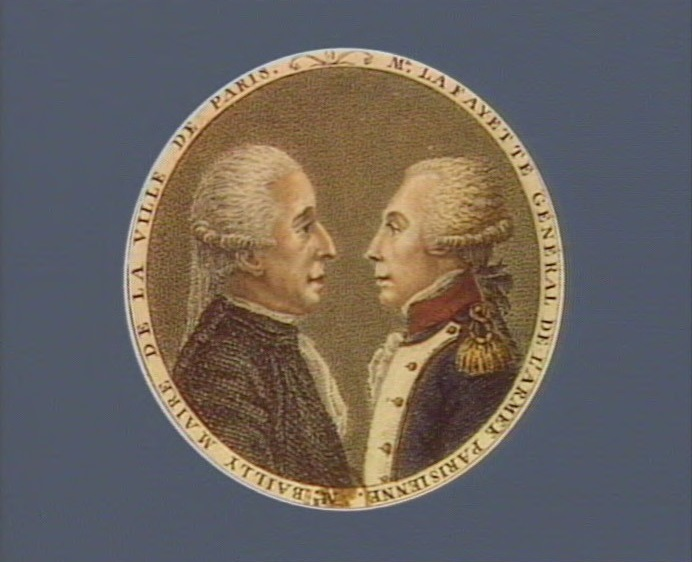 Non projected graphic print.